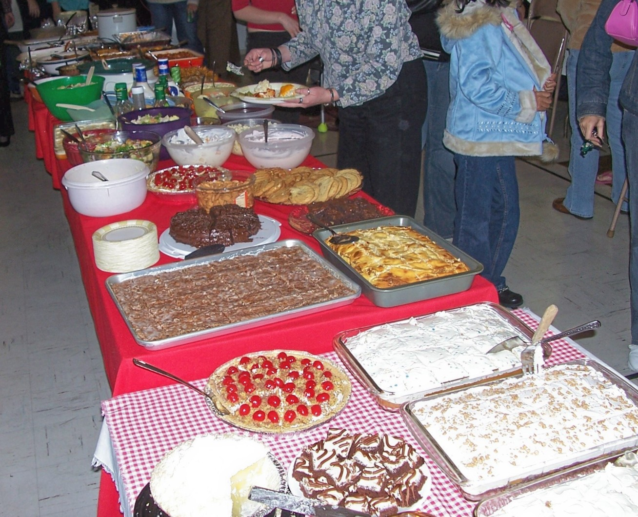 An assortment of food dishes at a church potluck.